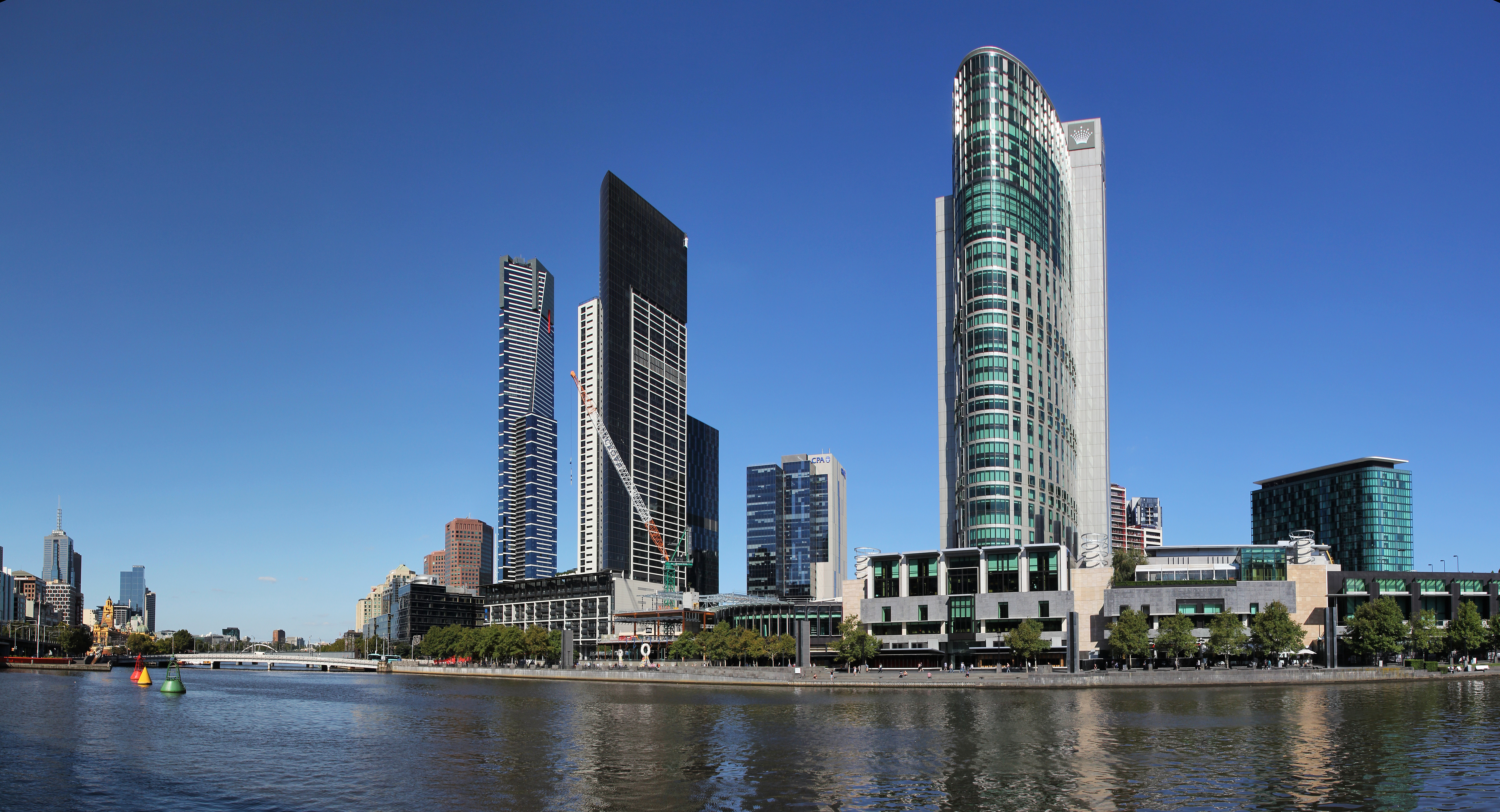 Southbank Promenade & Crown Casino Entertainment Complex